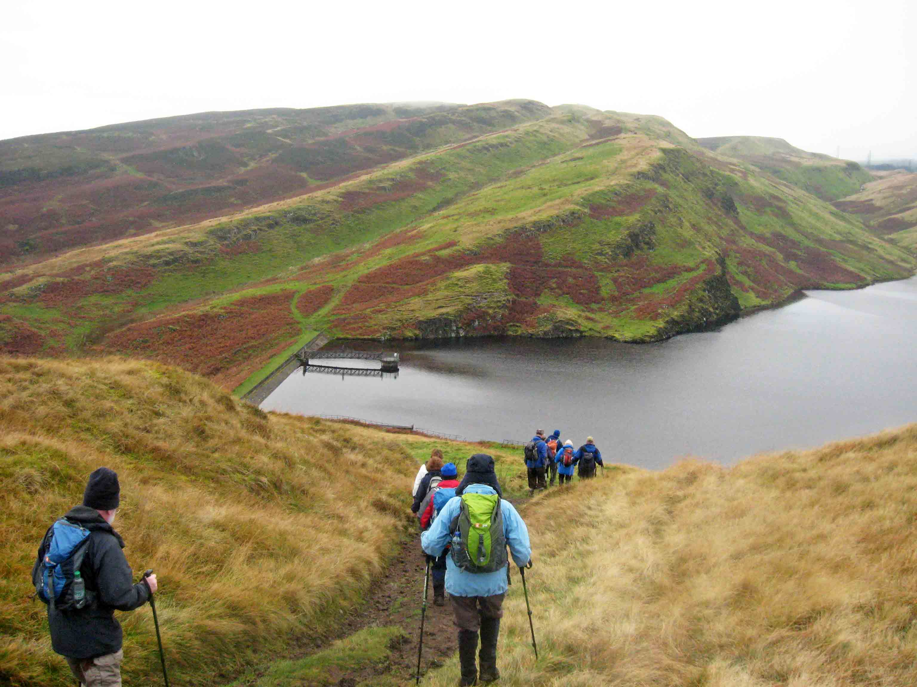 Kilpatrick Hills: view from Cochno Hill over Greenside Reservoir to The Slacks. The hills are made of basaltic lava flows of the Clyde Plateau Volcanic Formation of Carboniferous age.